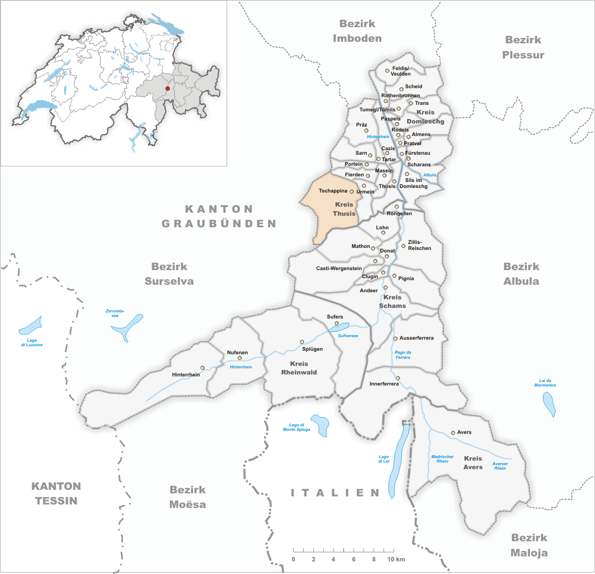 Municipality Tschappina